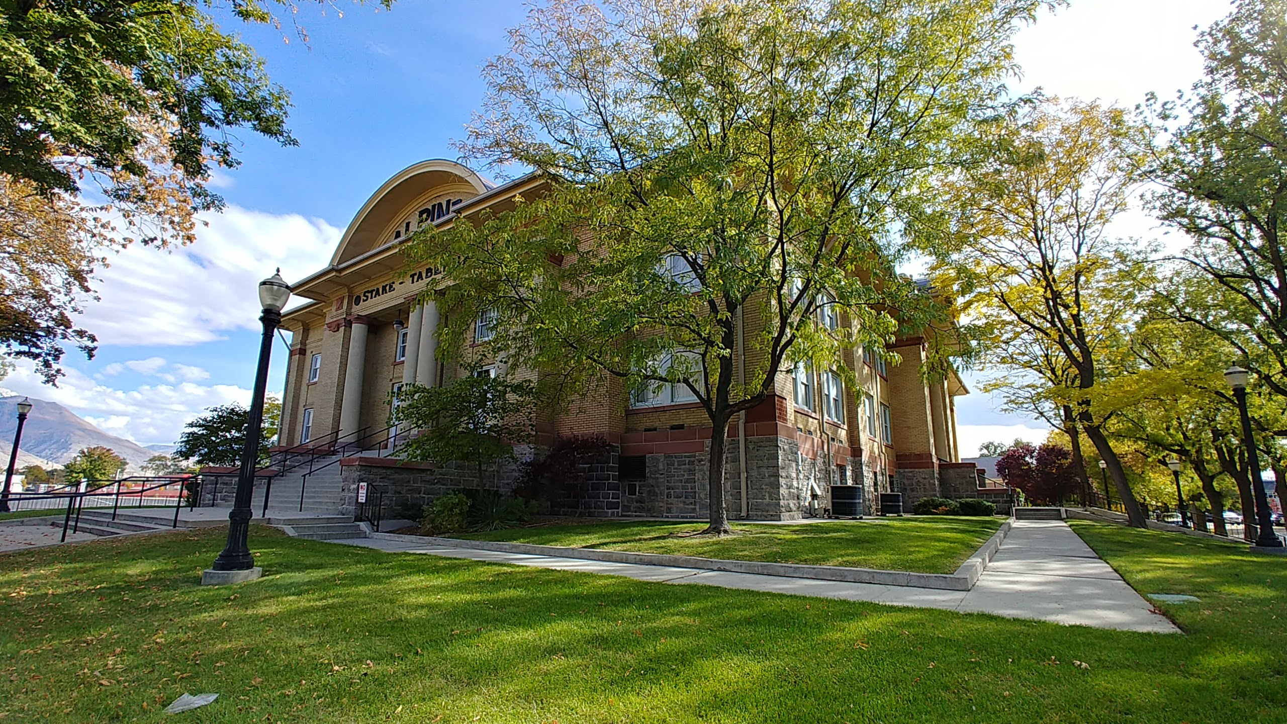 Alpine Tabernacle located on American Fork main street